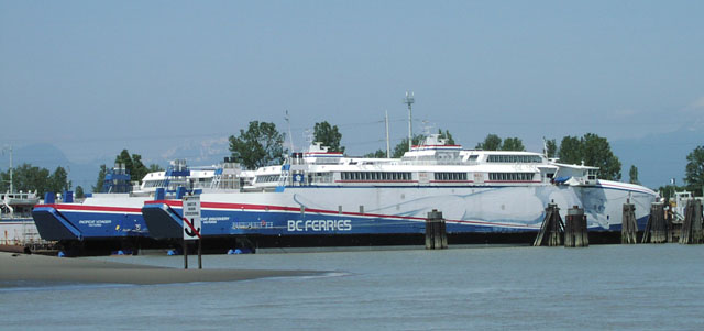 Former BC Ferries PacifiCat Voyager and PacifiCat Discovery at the Deas Dock, Richmond in 2002. PACIFICAT VOYAGER IMO Number: 9146443 PACIFICAT DISCOVERY IMO Number: 9146431